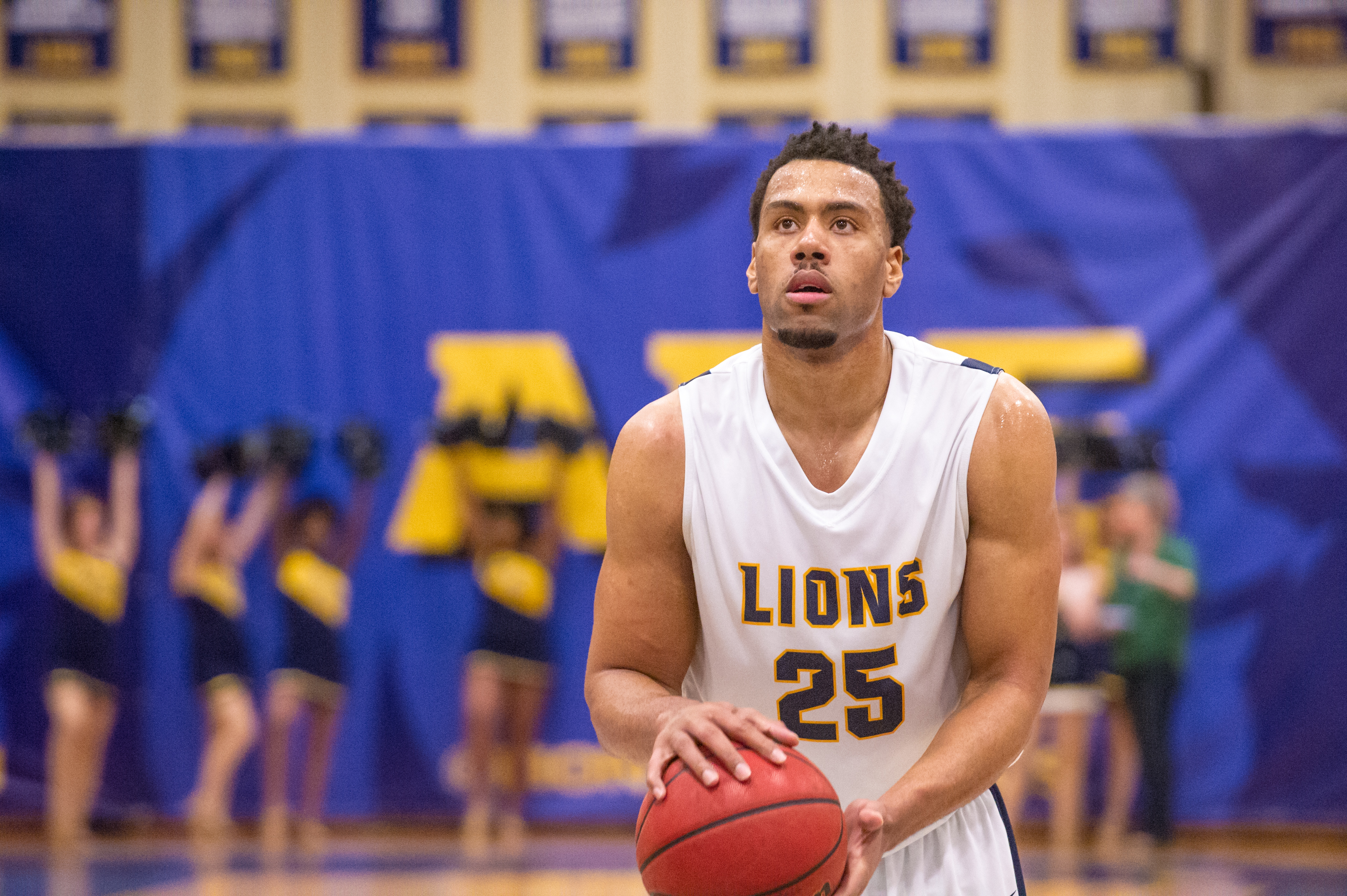 athletics-MBSK vs ASU-6837.jpg 2013–14 Texas A&M–Commerce Lions men's basketball team